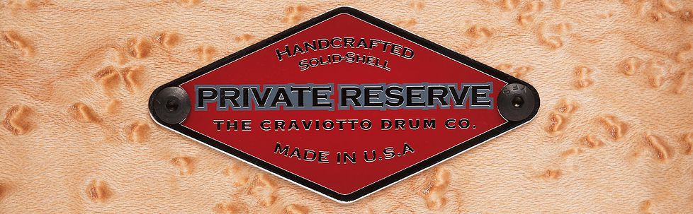 "Private Reserve". The Craviotto drums is a drum kit manufacturing company, based in Watsonville.